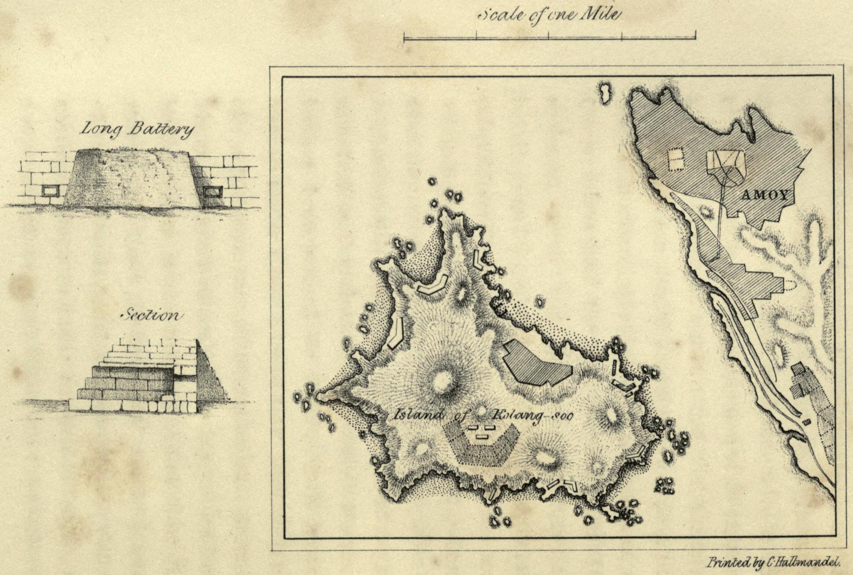 Sketch of Amoy and Kolang-soo.